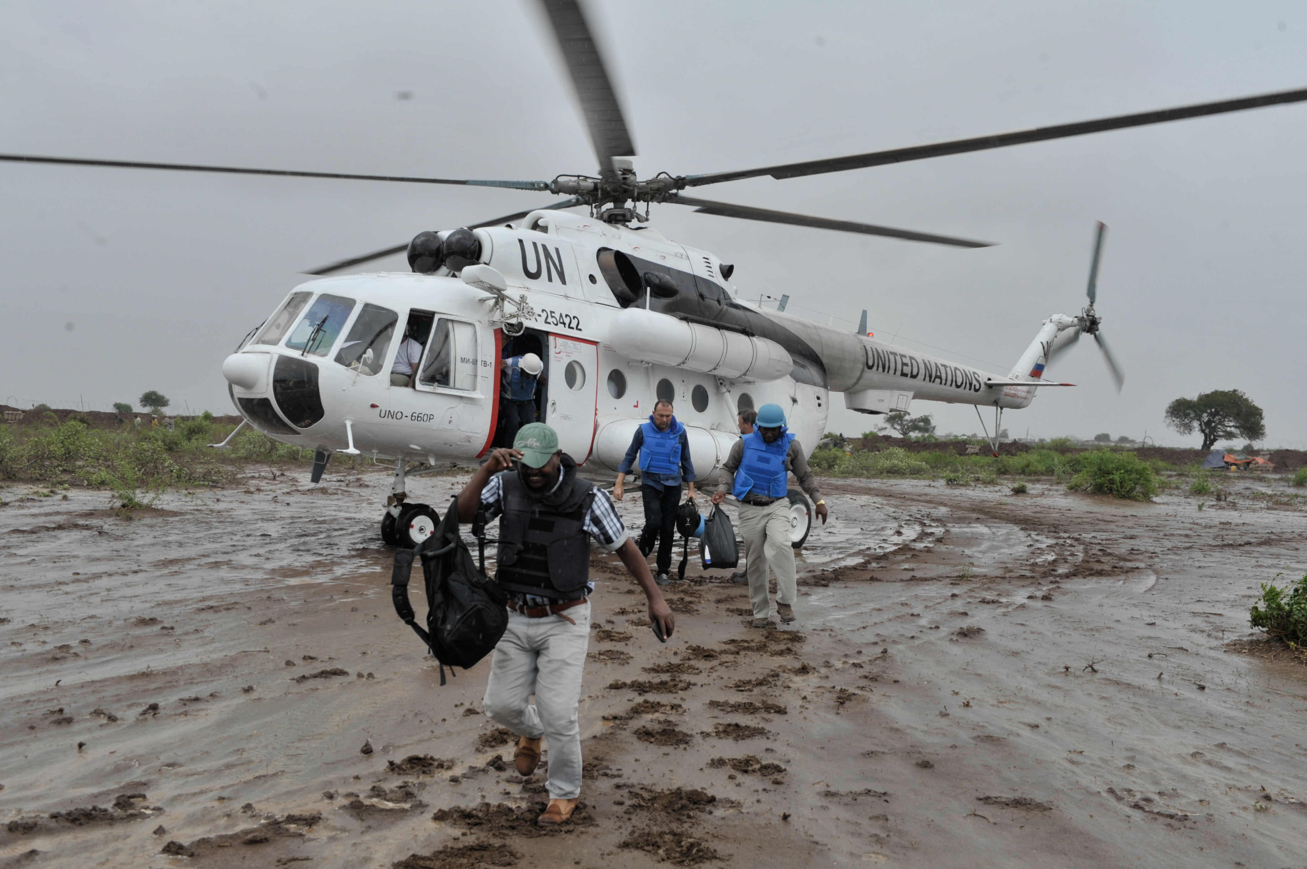 UN officials disembark from a helicopter near the town of Kurtunwaarey in the Lower Shabelle region of Somalia on November 20. The United Nations today conducted an inter-agency assessment mission in the recently liberated town of Kurtunwaarey, as part of an ongoing effort to assess the humanitarian needs of civilians living in former Al-Shabaab controlled areas. UN Photo / Tobin Jones